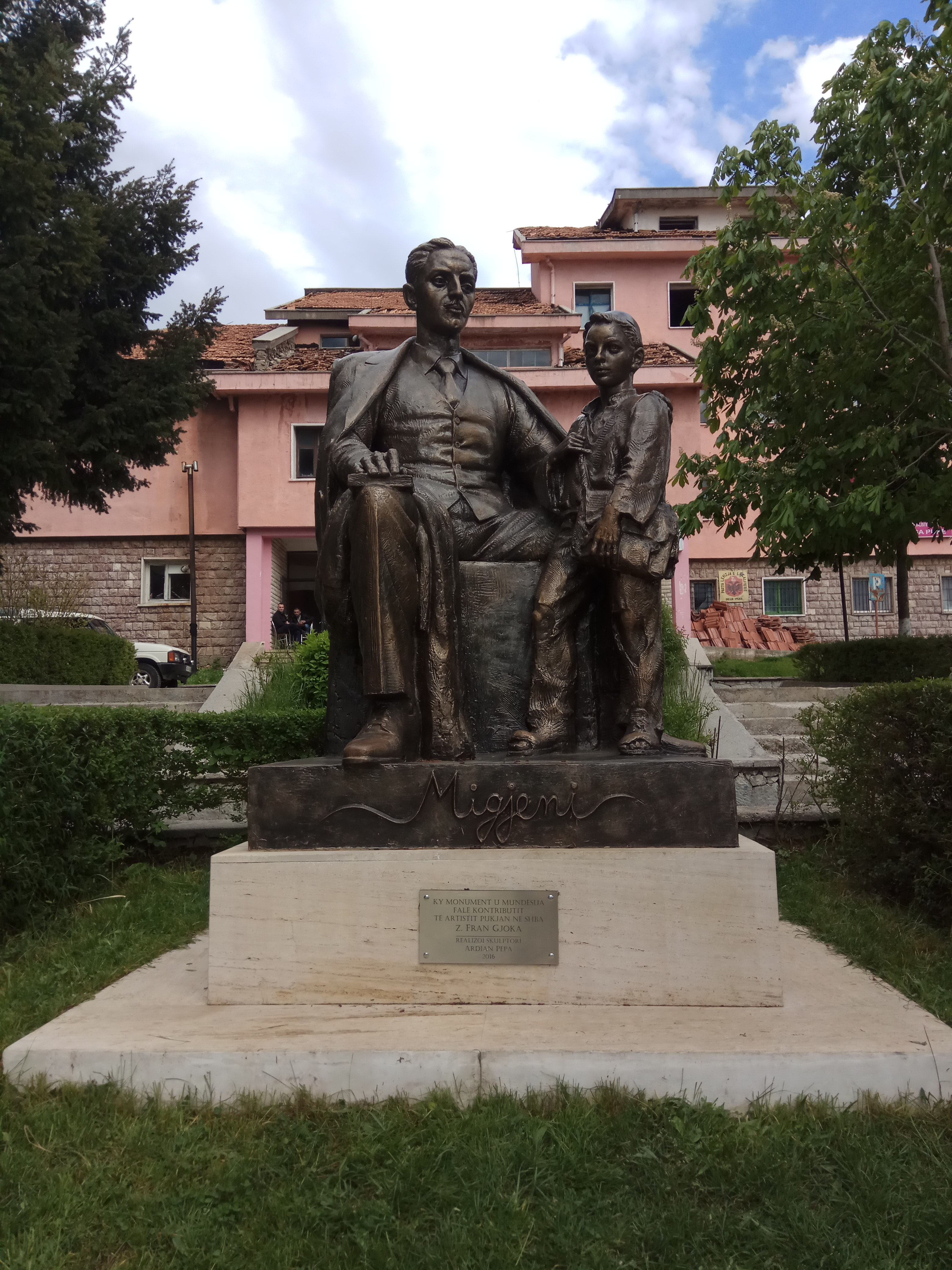 Realised with funding from Fran Gjoka. Implemented from the sculptor Ardian Pepa in 2016.